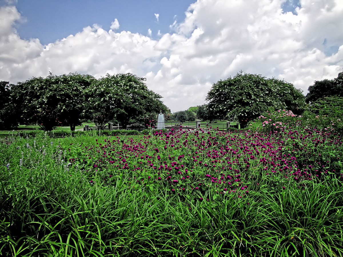 Charleston, SC.